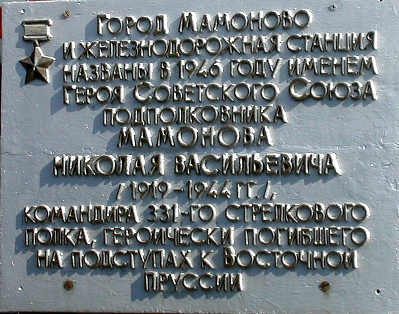 Tablet dedicated to Nikolay Mamonov on the railway station in Mamonovo, Kaliningrad Oblast, Russia.